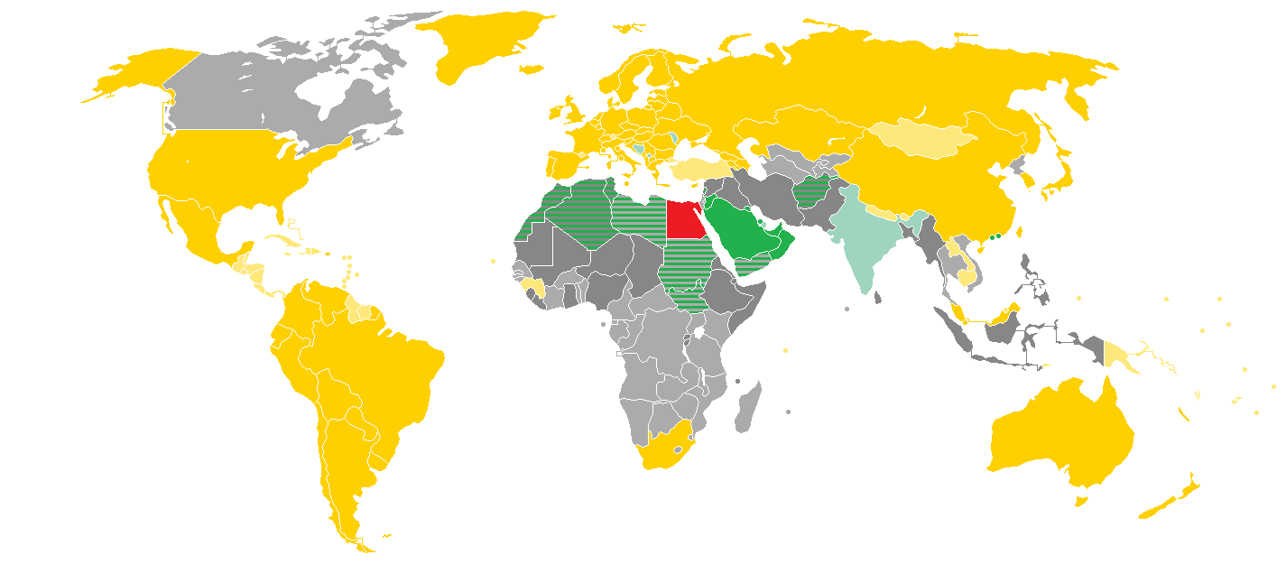 Visa policy of Egypt